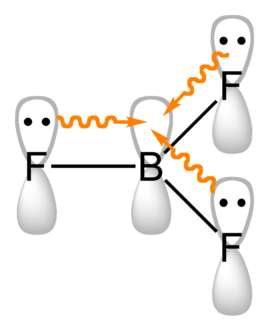 Structural formula of boron trifluoride, BF3, showing π bonding involving filled fluorine 2p orbitals (formally lone pairs) overlapping with the empty 2p orbital on boron and donating electron density to relieve boron's electron deficiency.